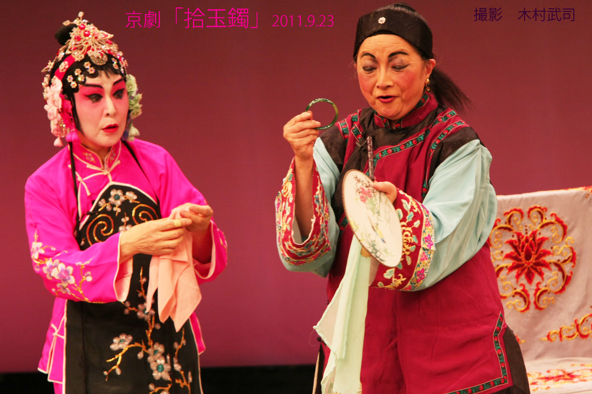 Beijing Opera "Shiyuzhuo"(京劇「拾玉鐲」=京剧《拾玉镯》)or "Picking Up the Jade Bracelet",performed by actresses SAKATA Sumiko(坂田純子) and TAKEGUCHI Misuzu(竹口美鈴),Japan Beijing Opera Study Society & China National Peking Opera Company(日本京劇研究会・中国国家京劇院合同公演). Haiyuza Theater,Roppongi,Tokyo,Japan.